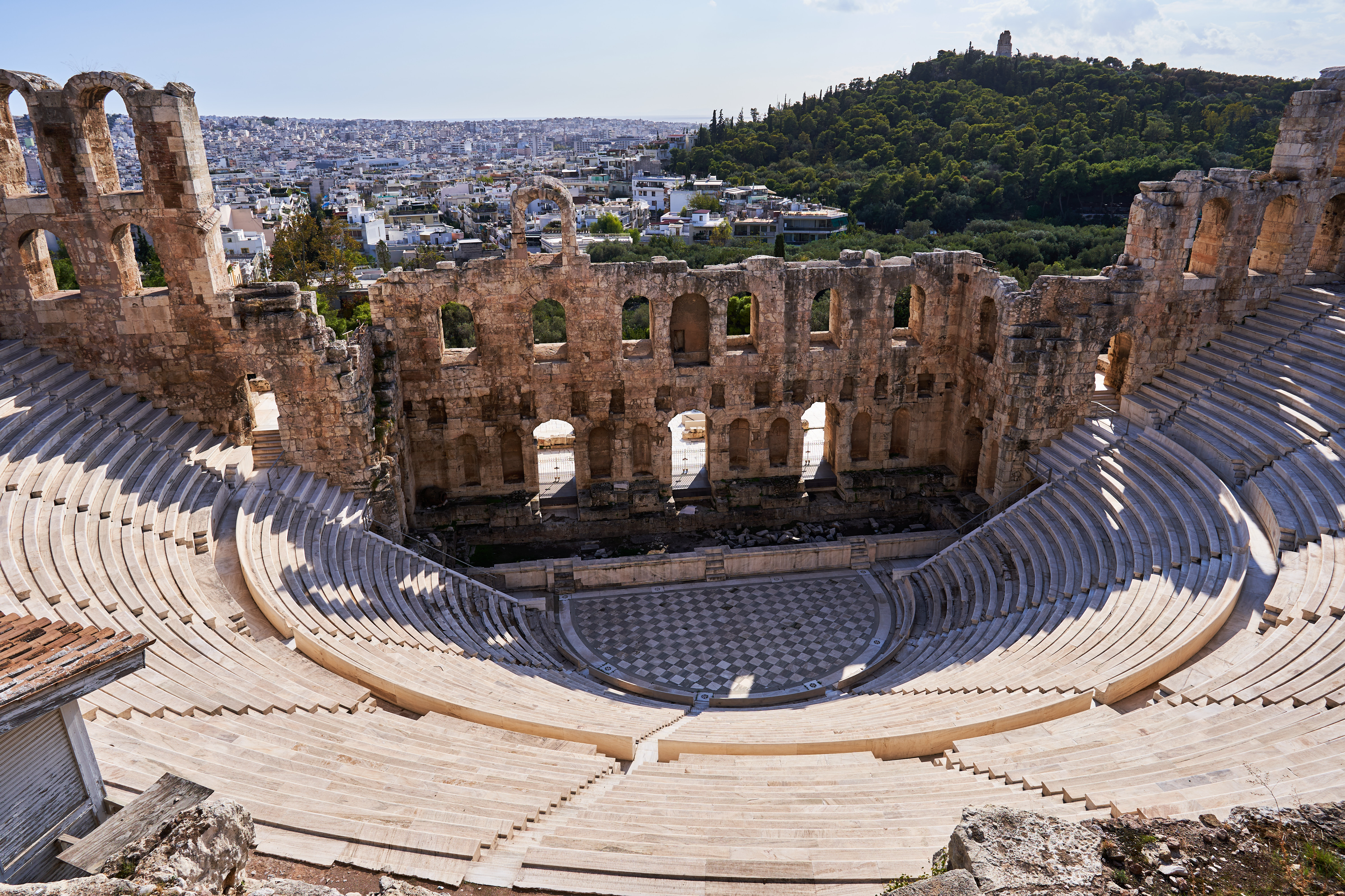 The Odeon of Herodes Atticus on November 8, 2019.